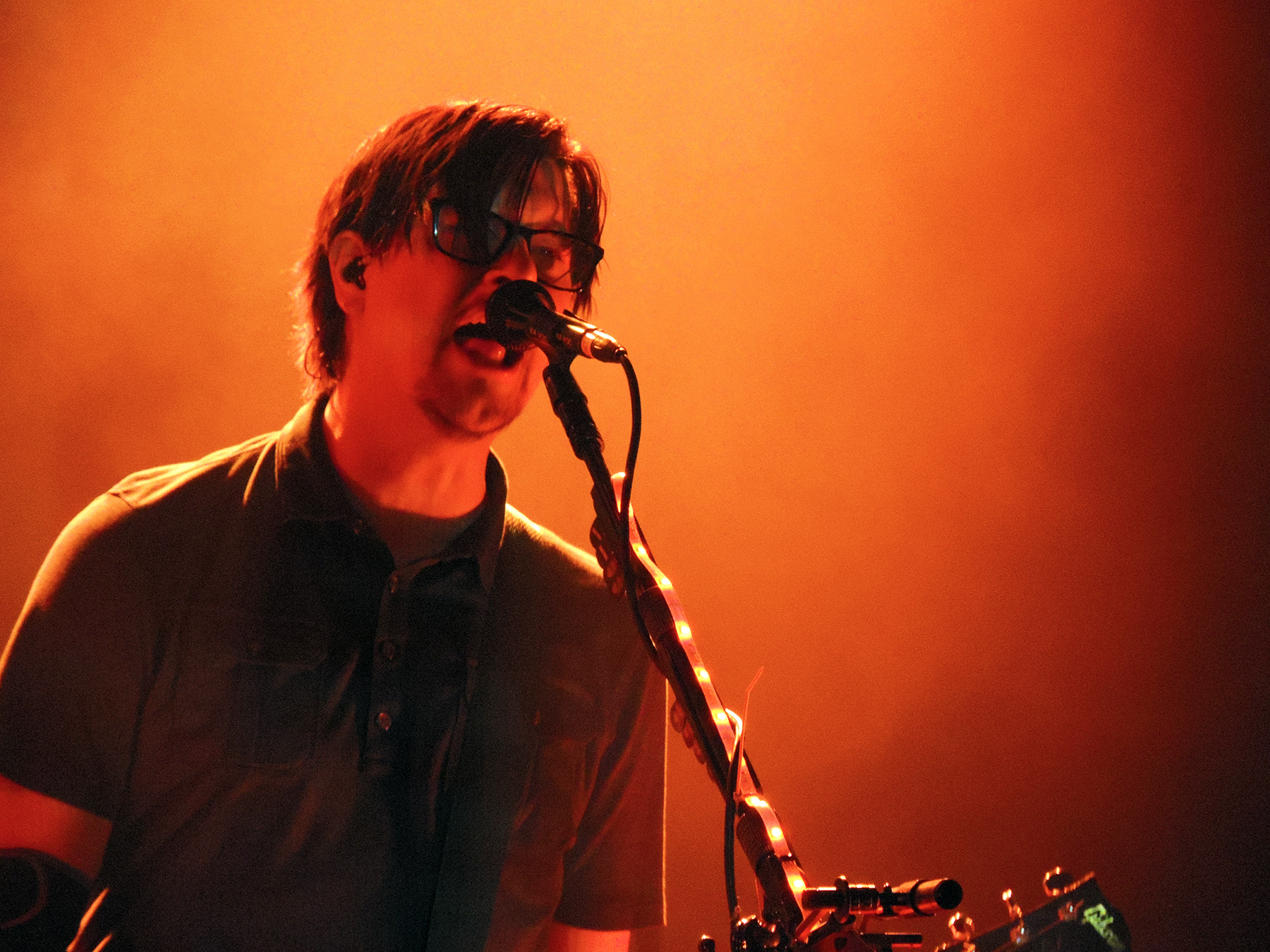 Ken Andrews performing with Failure in 2014